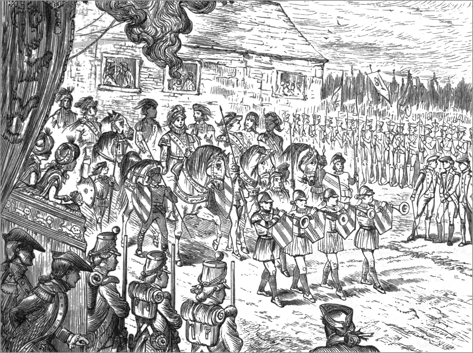 The Meschianza